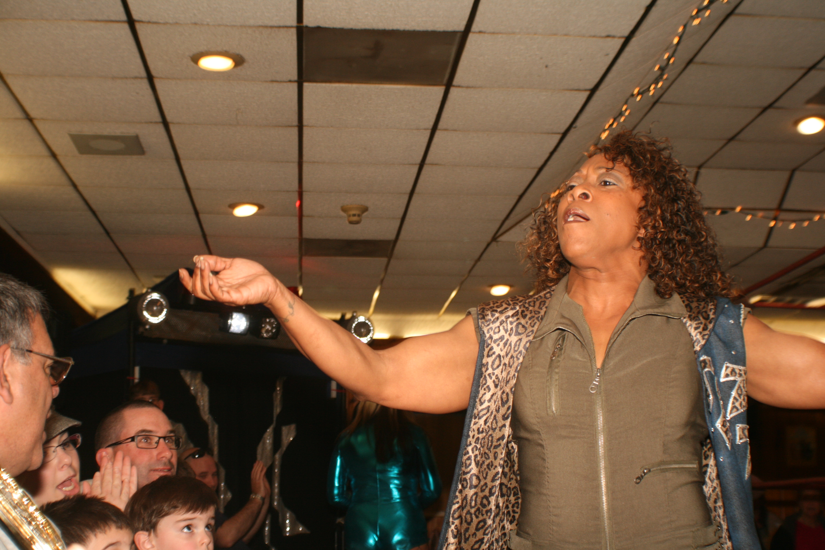 Professional wrestler Jazz at a WSU show in April 2010.